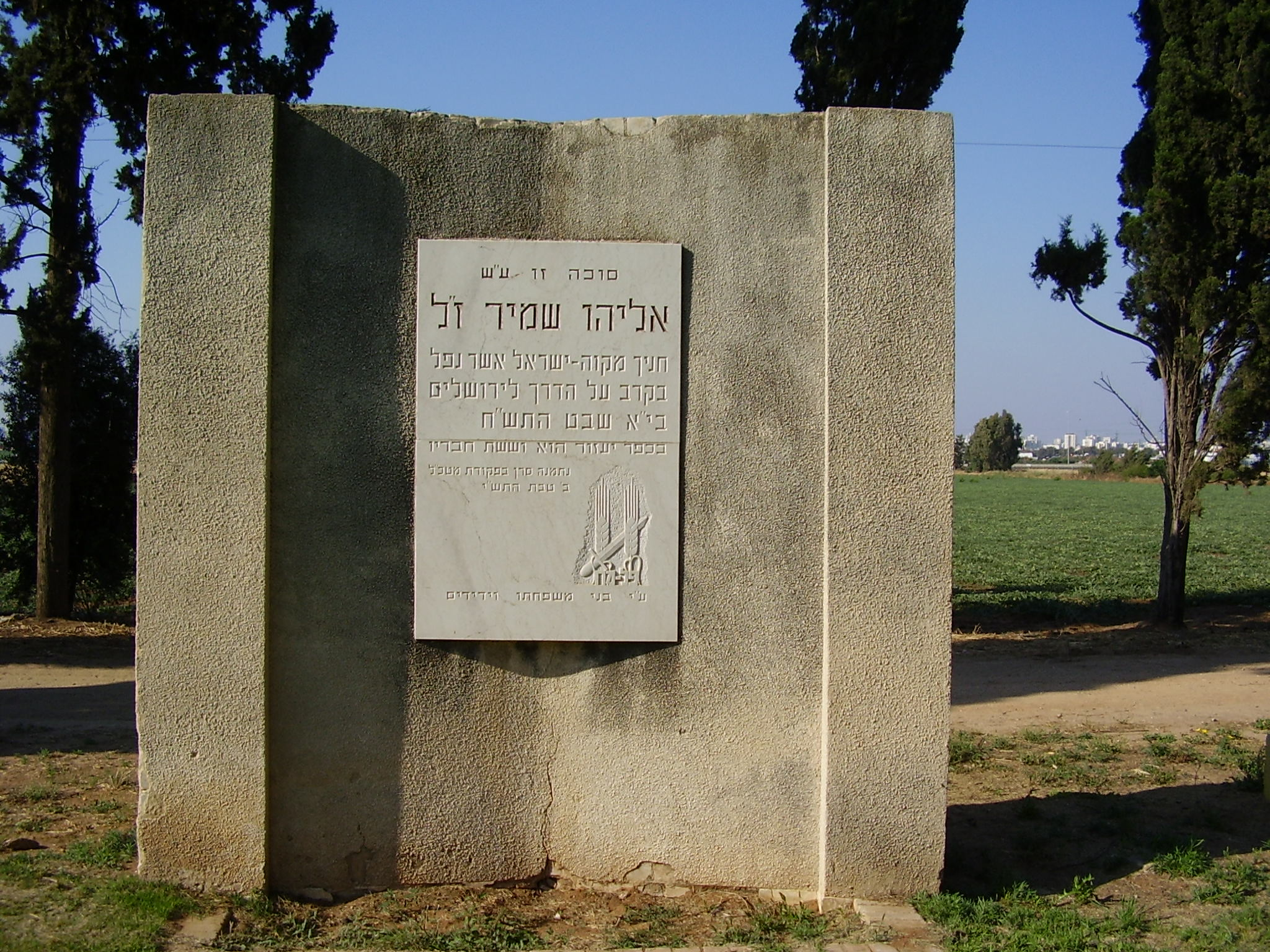 Mikveh Israel